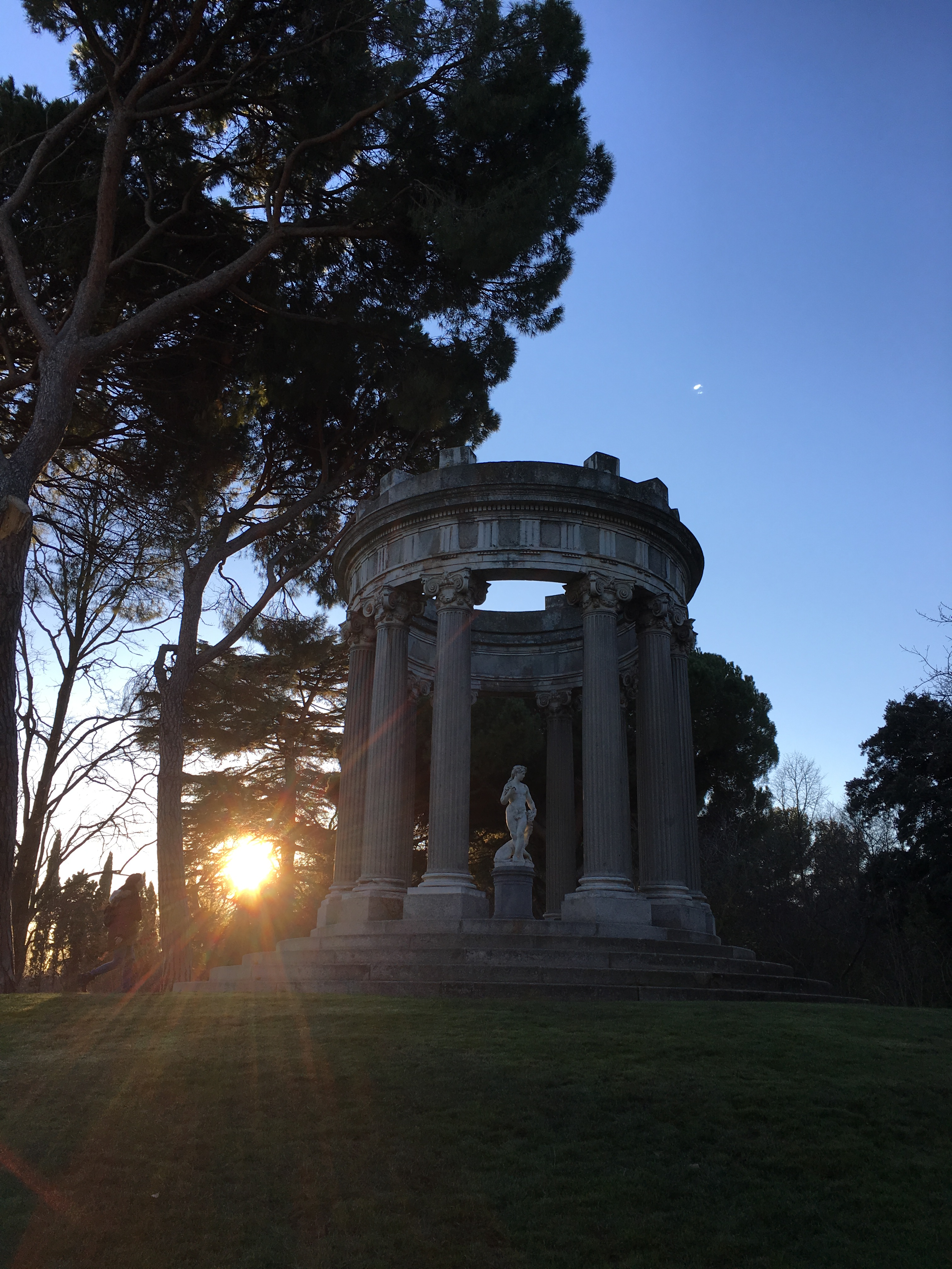 Parque el capricho,Alameda de Osuna, Madrid